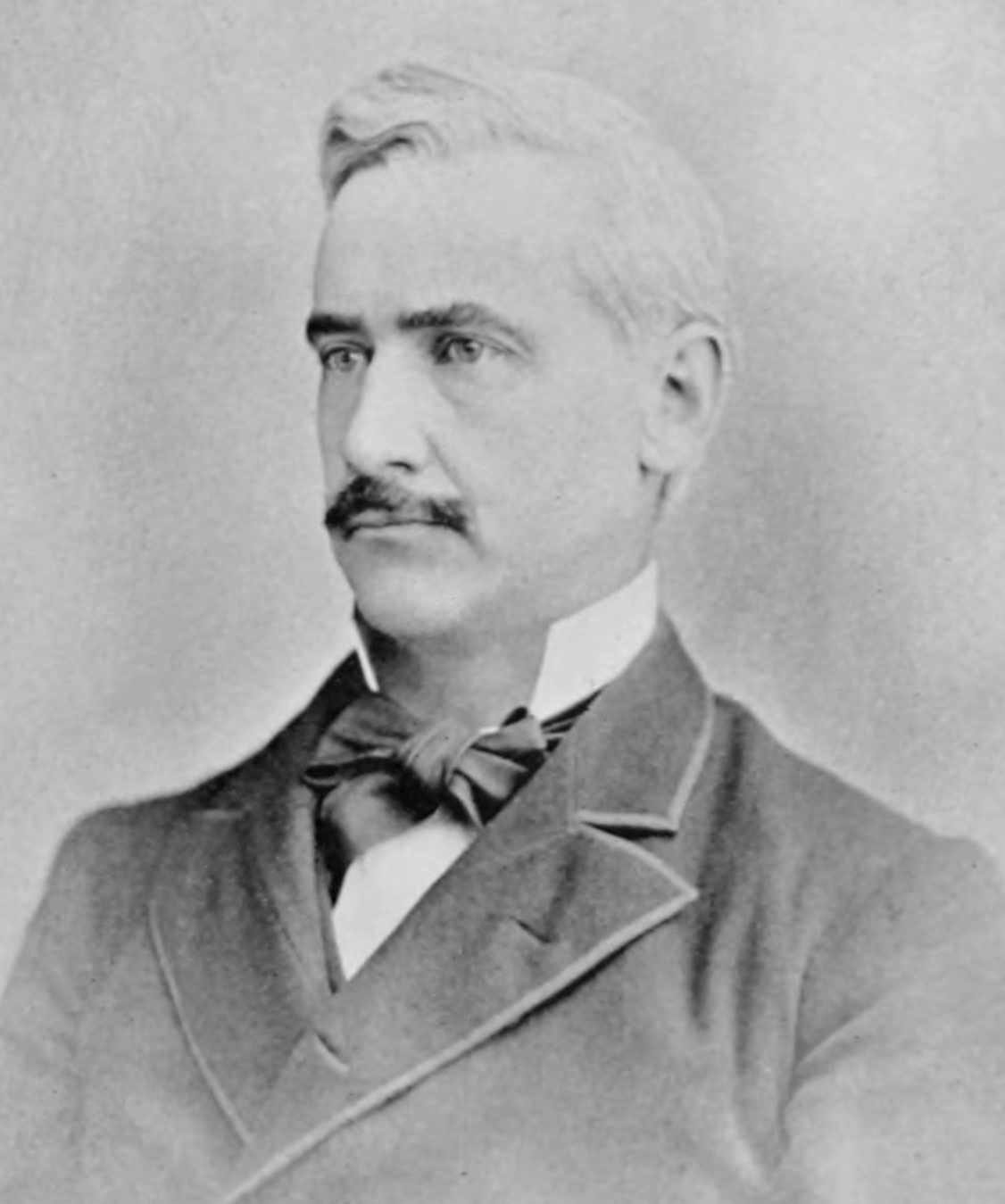 Robert E. De Forest, US Representative from Connecticut